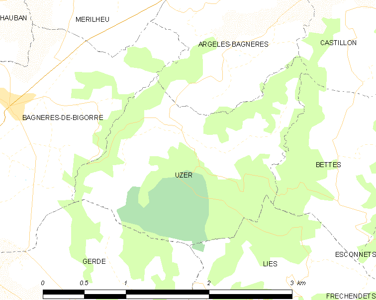 Map of French municipality